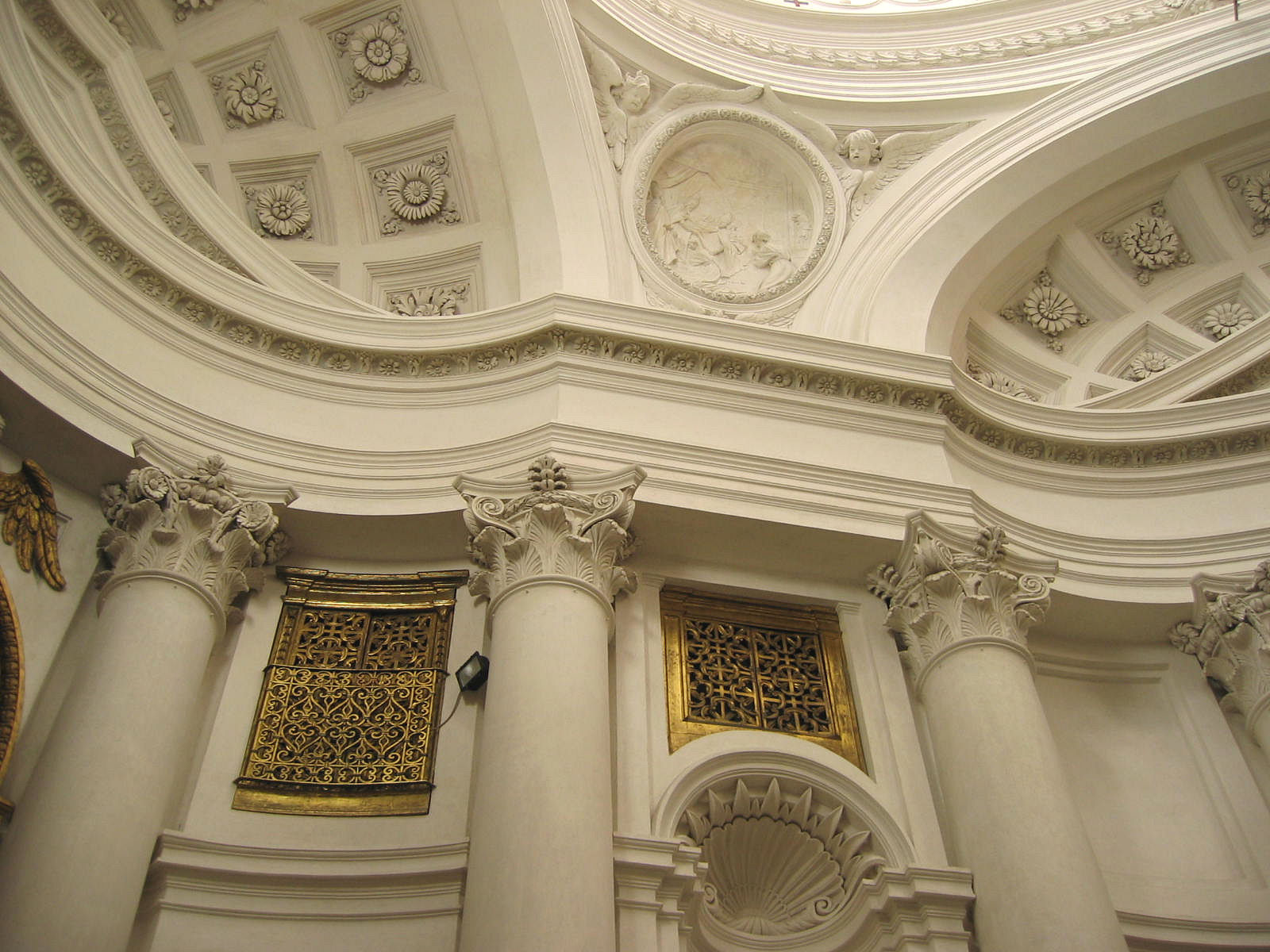 Francesco Borromini - San Carlo alle Quattro Fontane, Rome. Interior.